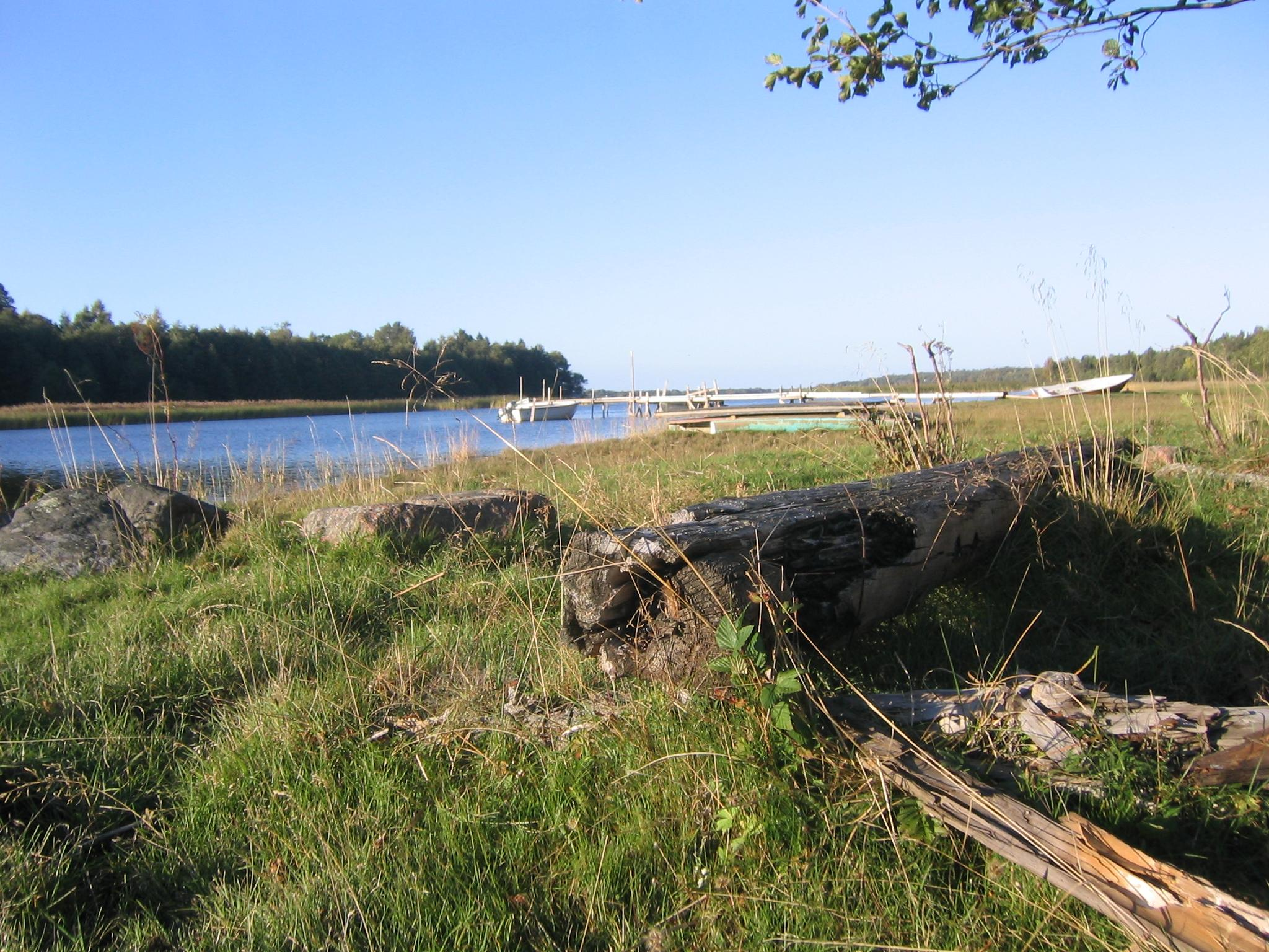 The little strait in Ragetsbole on the Aland Islands, Finland.